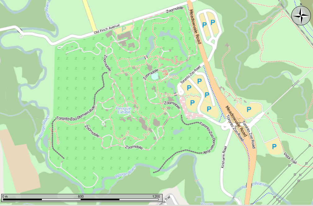 Open Street Map made in the Marble program showing the Toronto Zoo. Also shows the location of the former Toronto Zoo Domain ride. Can also be seen in Open Street Map at a lower zoom level, for anyone that doesn't believe that I made this in Marble...